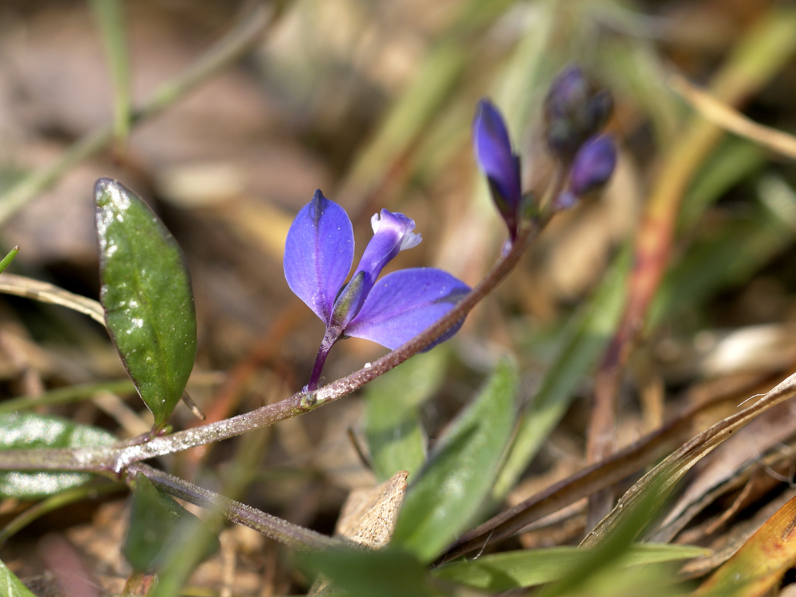 Thyme-leaved Milkwort at Schobbejakshoogte, Brugge - Belgium